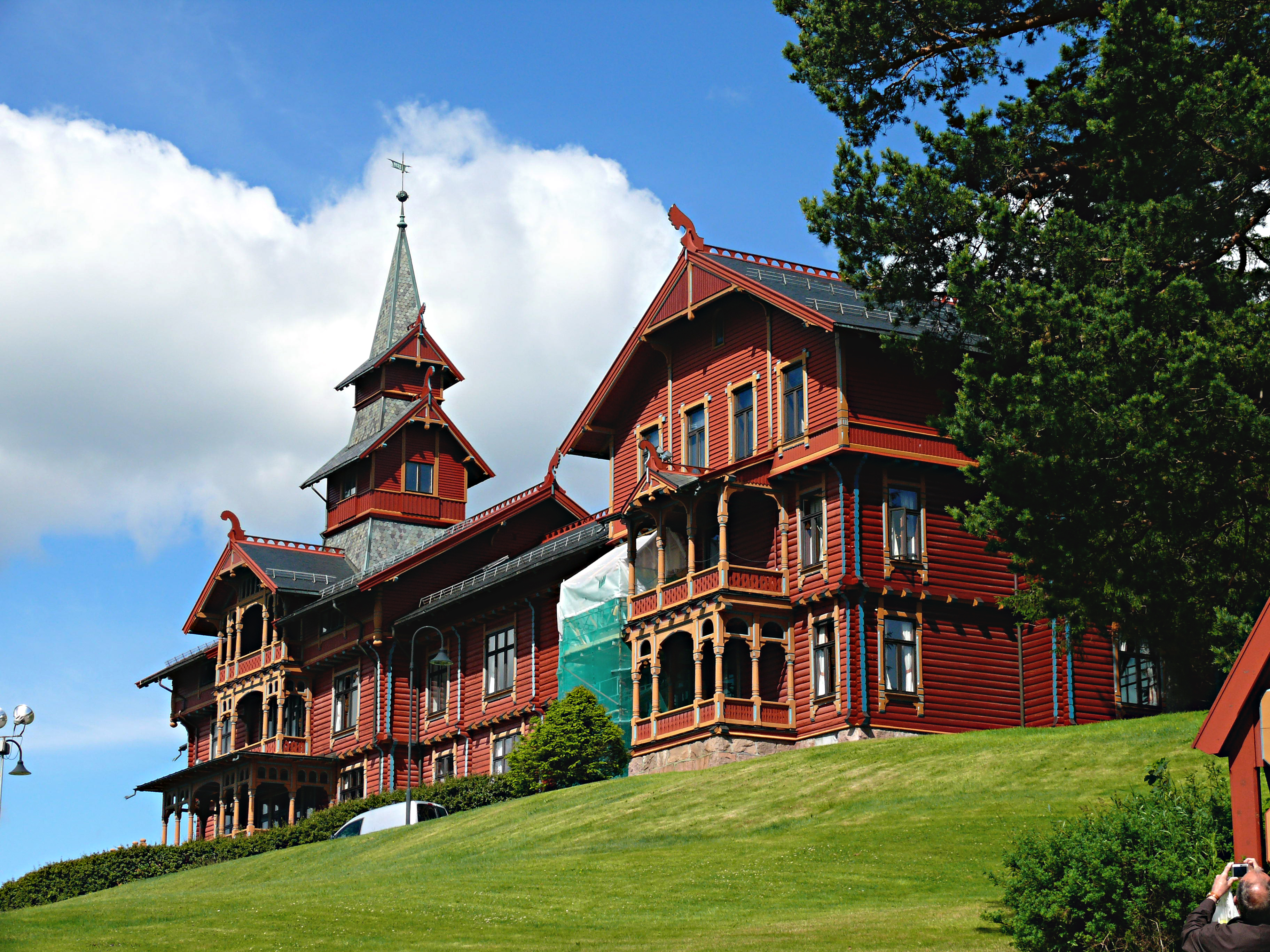 Holmenkollen Park Hotel Rica